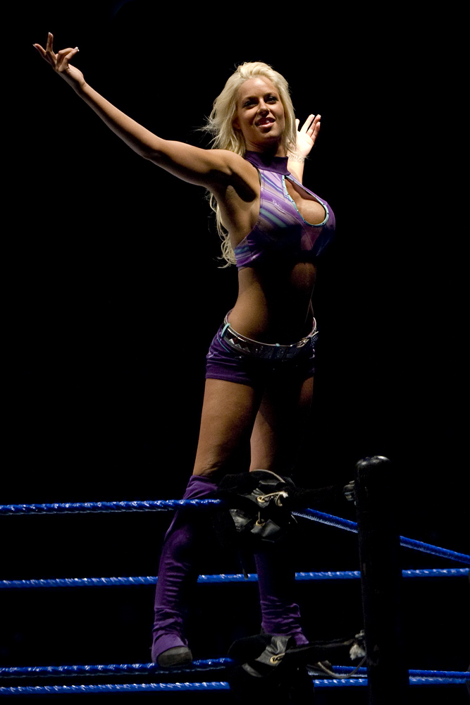 Wrestler Maryse in Pavilhão Atlântico arena in Lisbon, Portugal